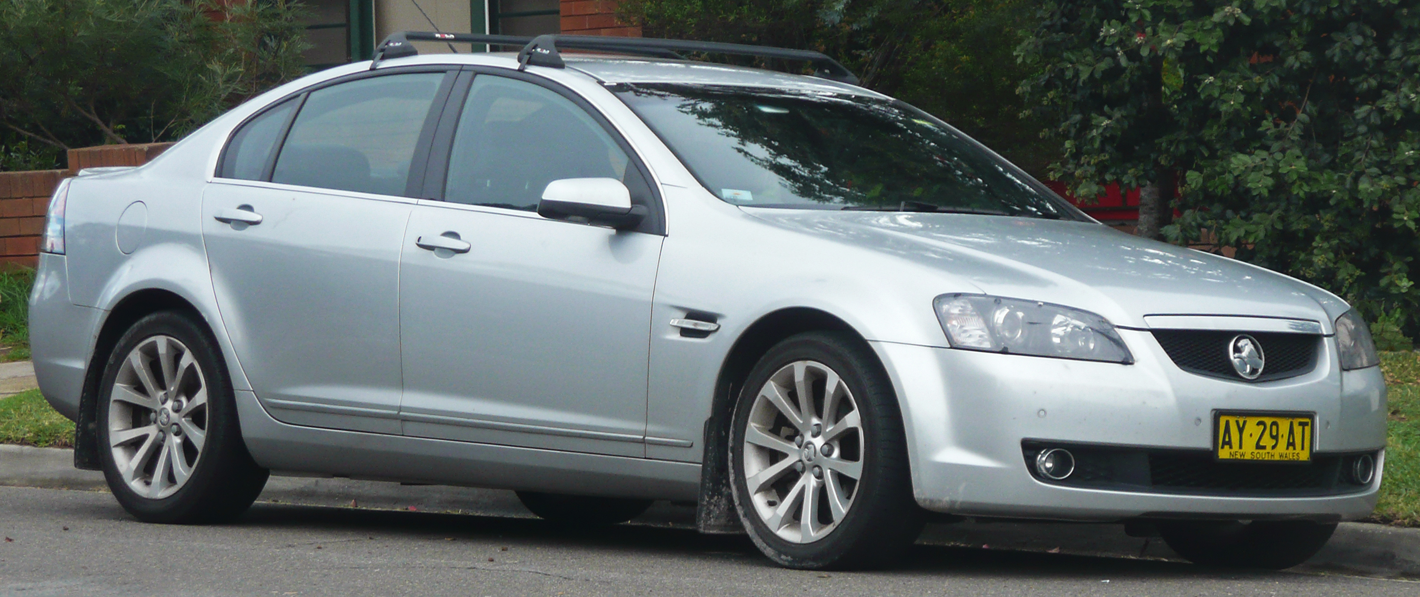 2008 Holden Calais (VE MY09) V sedan. Photographed in Cronulla, New South Wales, Australia.